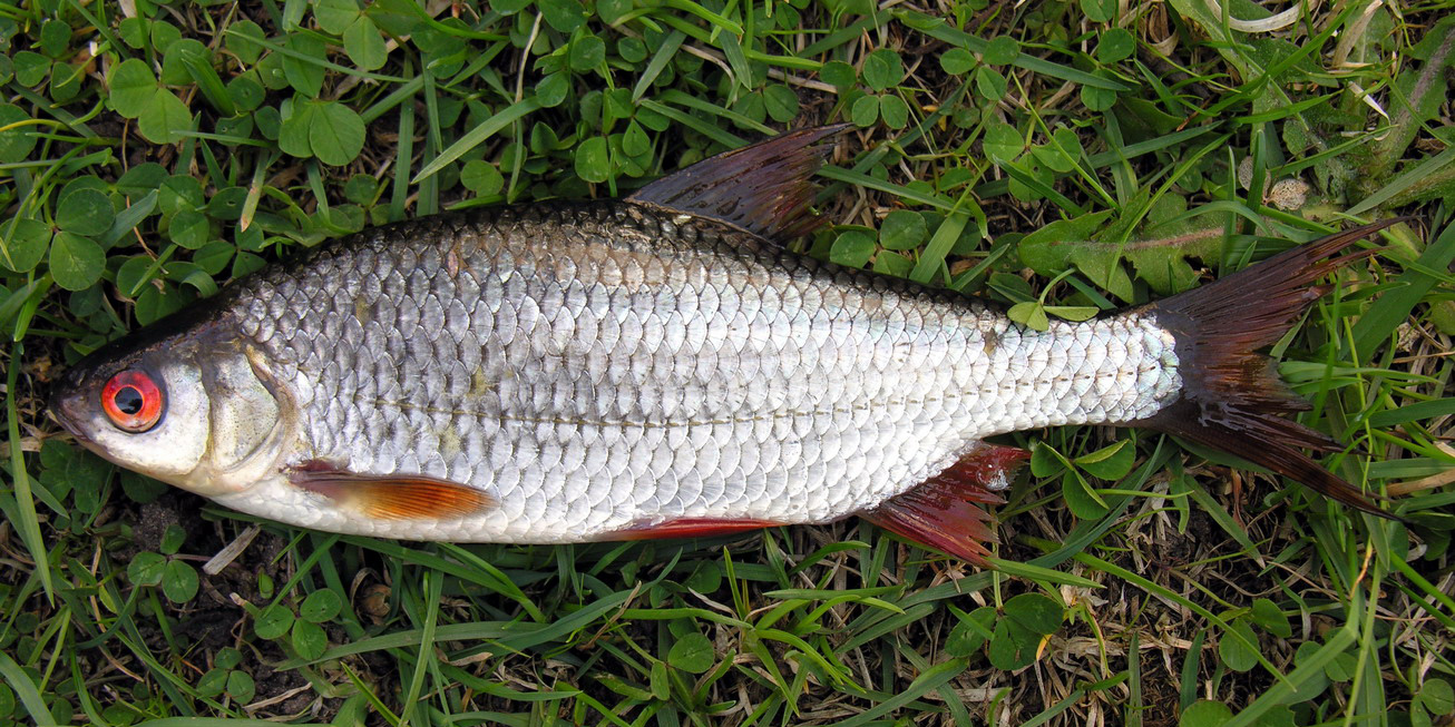 Common roach Rutilus rutilus. Original photo by user Algirdas